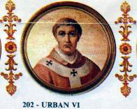 Portrait of Pope Urban VI in the Basilica of Saint Paul Outside the Walls, Rome